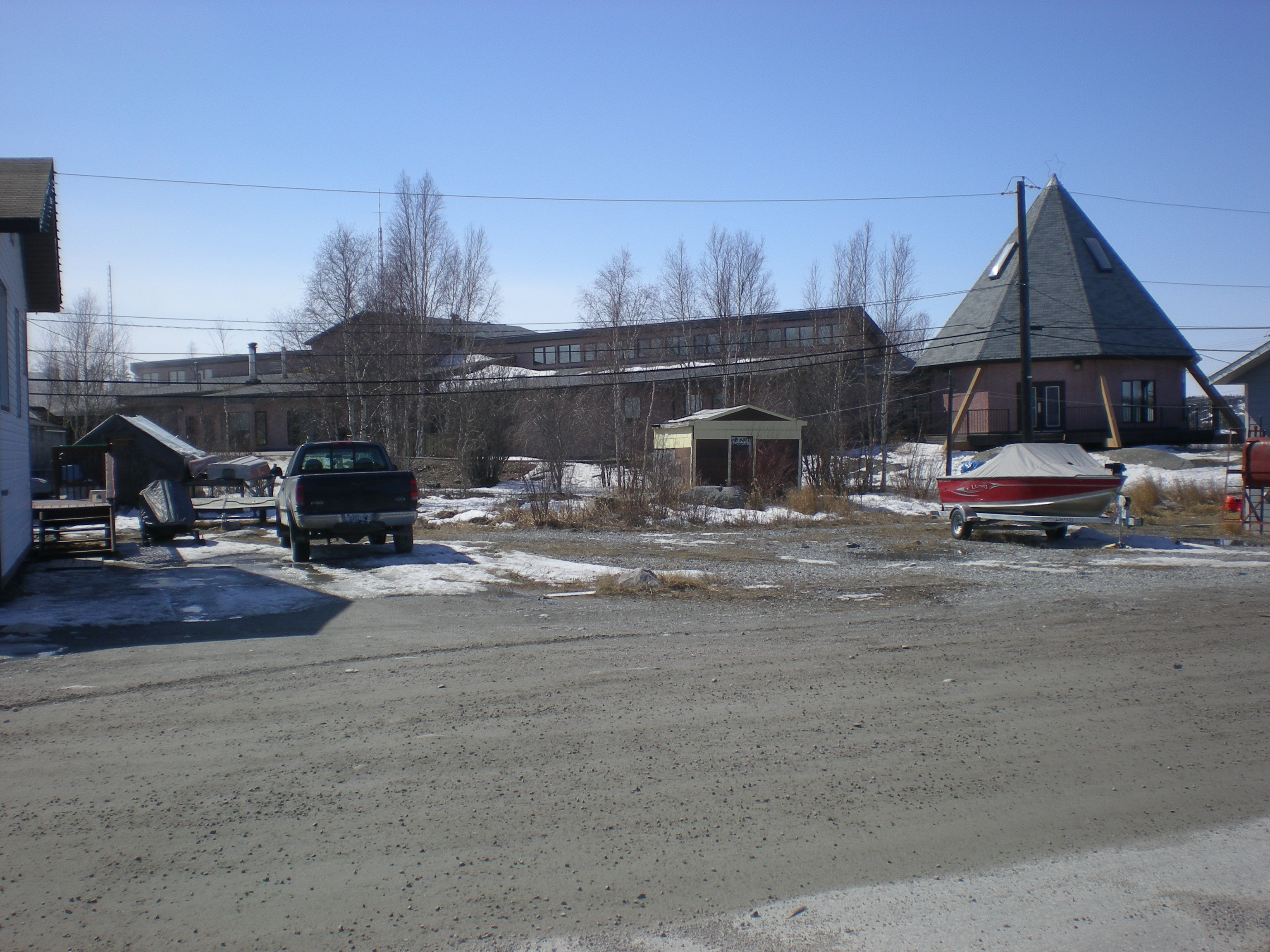 Abe Vital Boarding Home in N'Dilo. Primarily for First Nations people in the NWT when in Yellowknife for medical reasons.